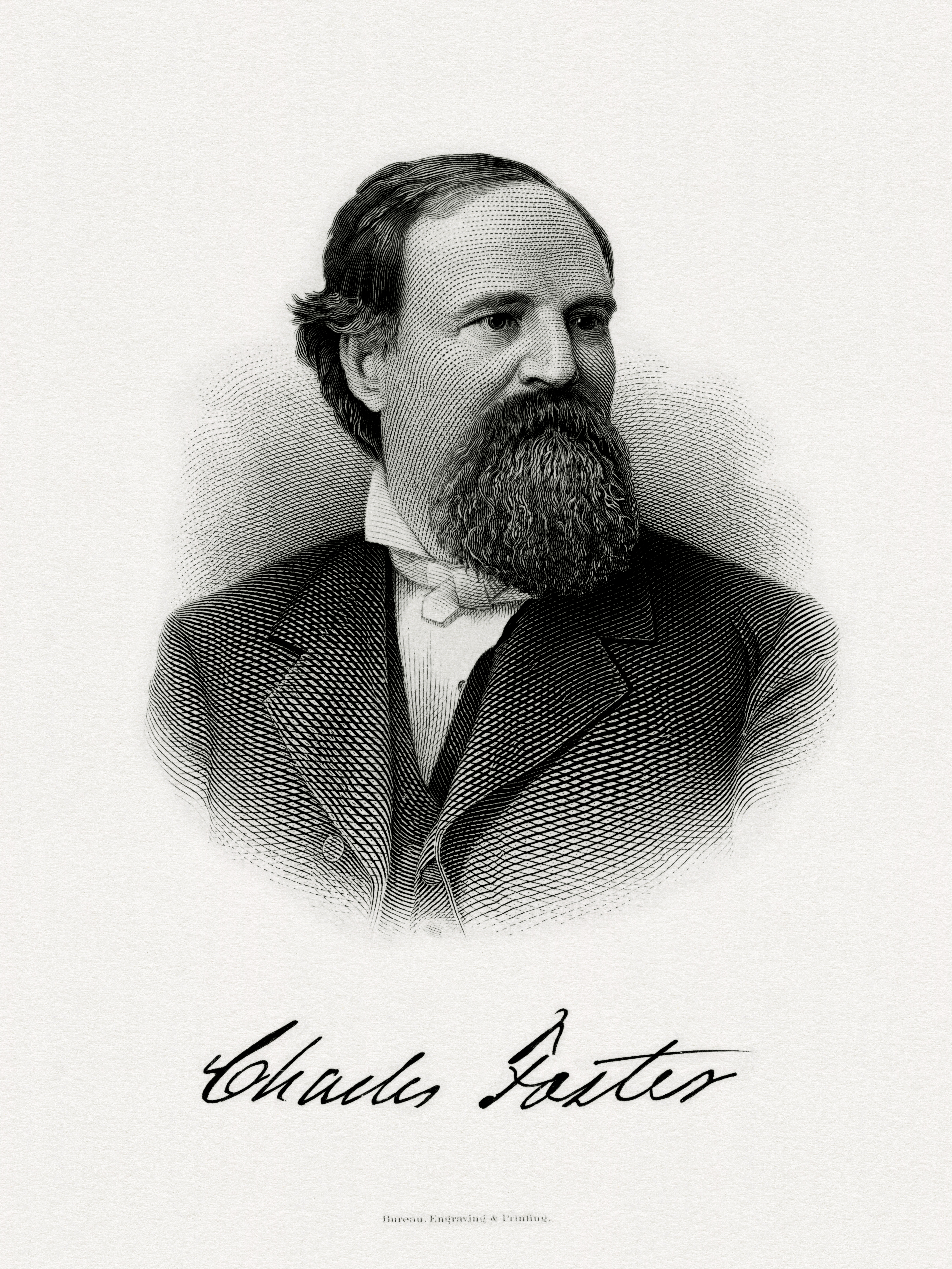 Engraved BEP portrait of U.S. Secretary of the Treasury Charles Foster